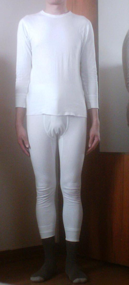 Man in Long Johns